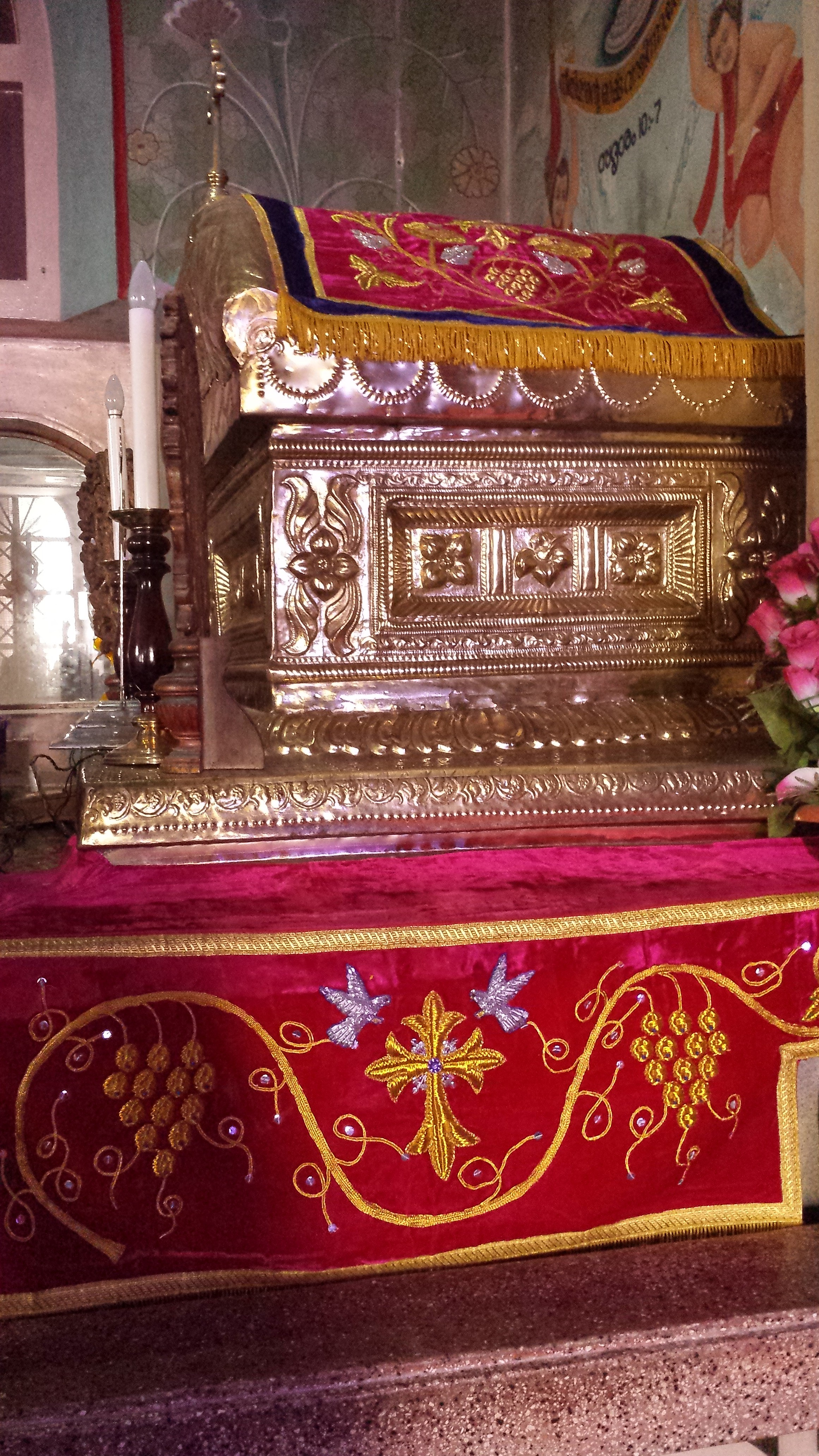 Tomb of Mar Gregorios Abdul Jallel, the first Antiochian bishop to reach Malanakara, inside St. Thomas Jacobite Syrian Church, North Paravur.